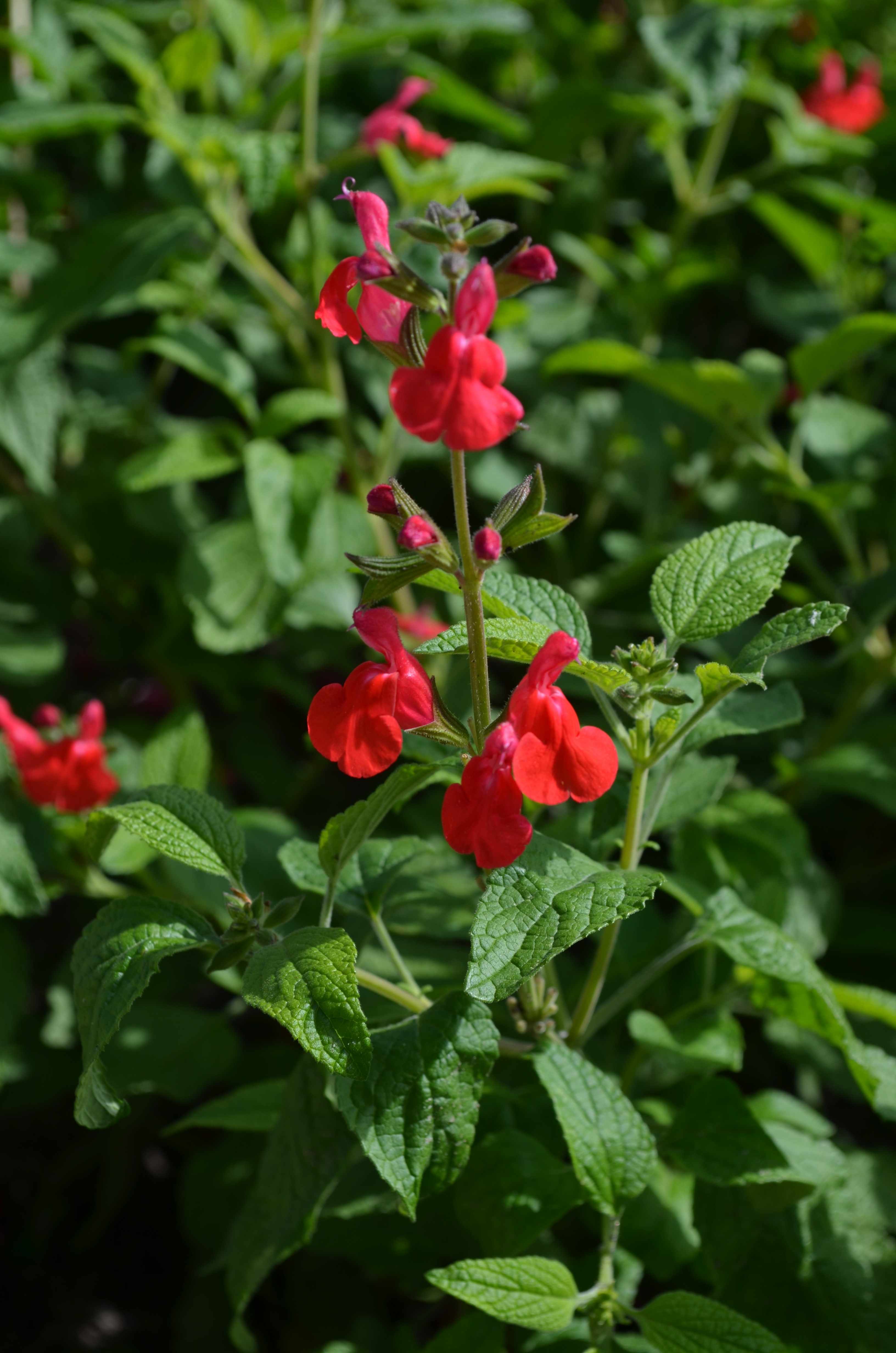 This form of Salvia microphylla is commonly mislabelled as Salvia heerii in European Botanical Gardens. Mislabelled plant at the Berlin Botanic Garden